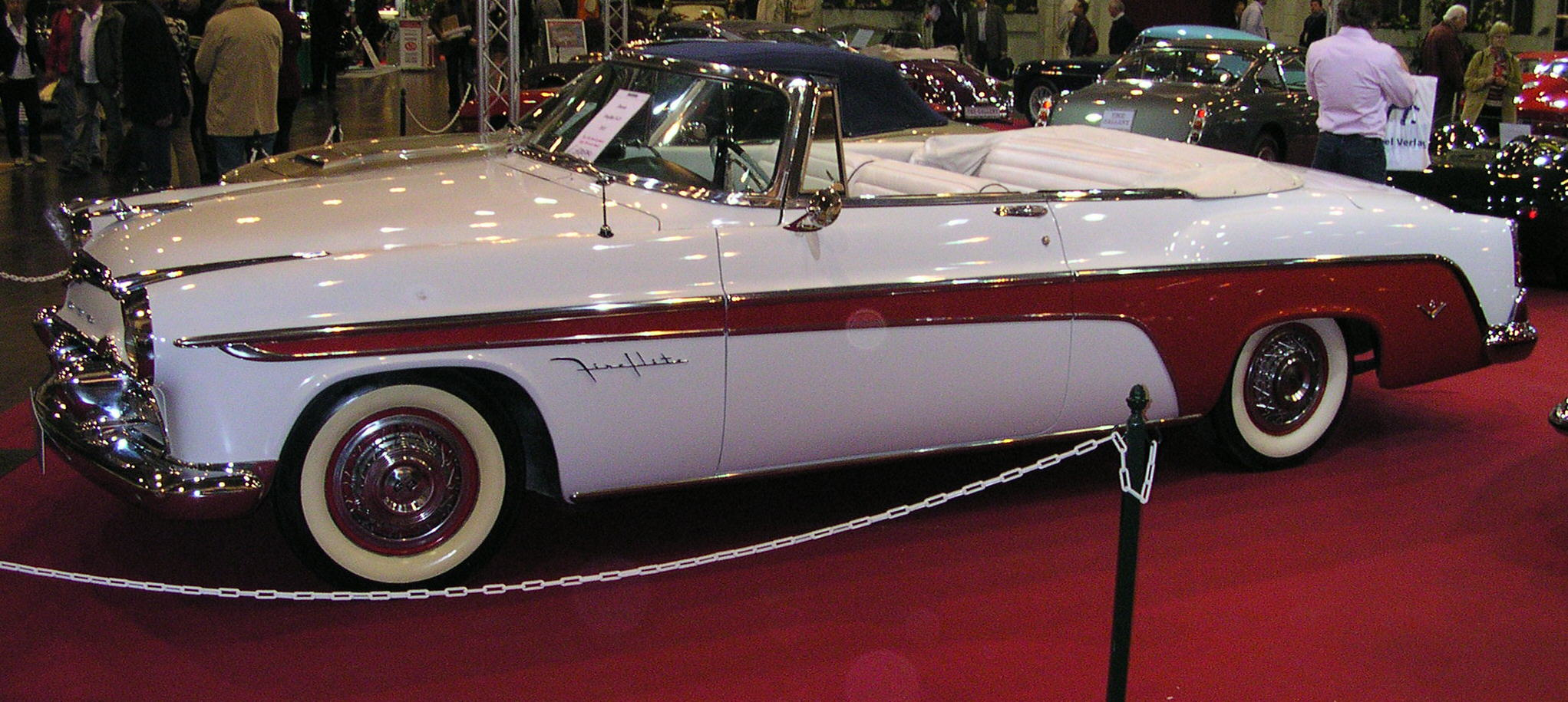 Techno-Classica 2007, De Soto Firflite S 21 (1955), only 186 were made